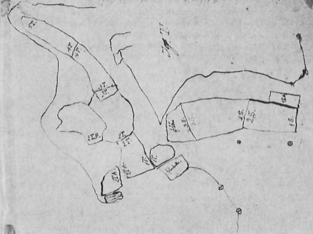 Sketched plan view on the plaster blocks assemblage containing Mantellisaurus aterfieldensis, Bernissart specimen 'T' (RBINS R57). Drawed by Louis F. De Pauw, 1882.